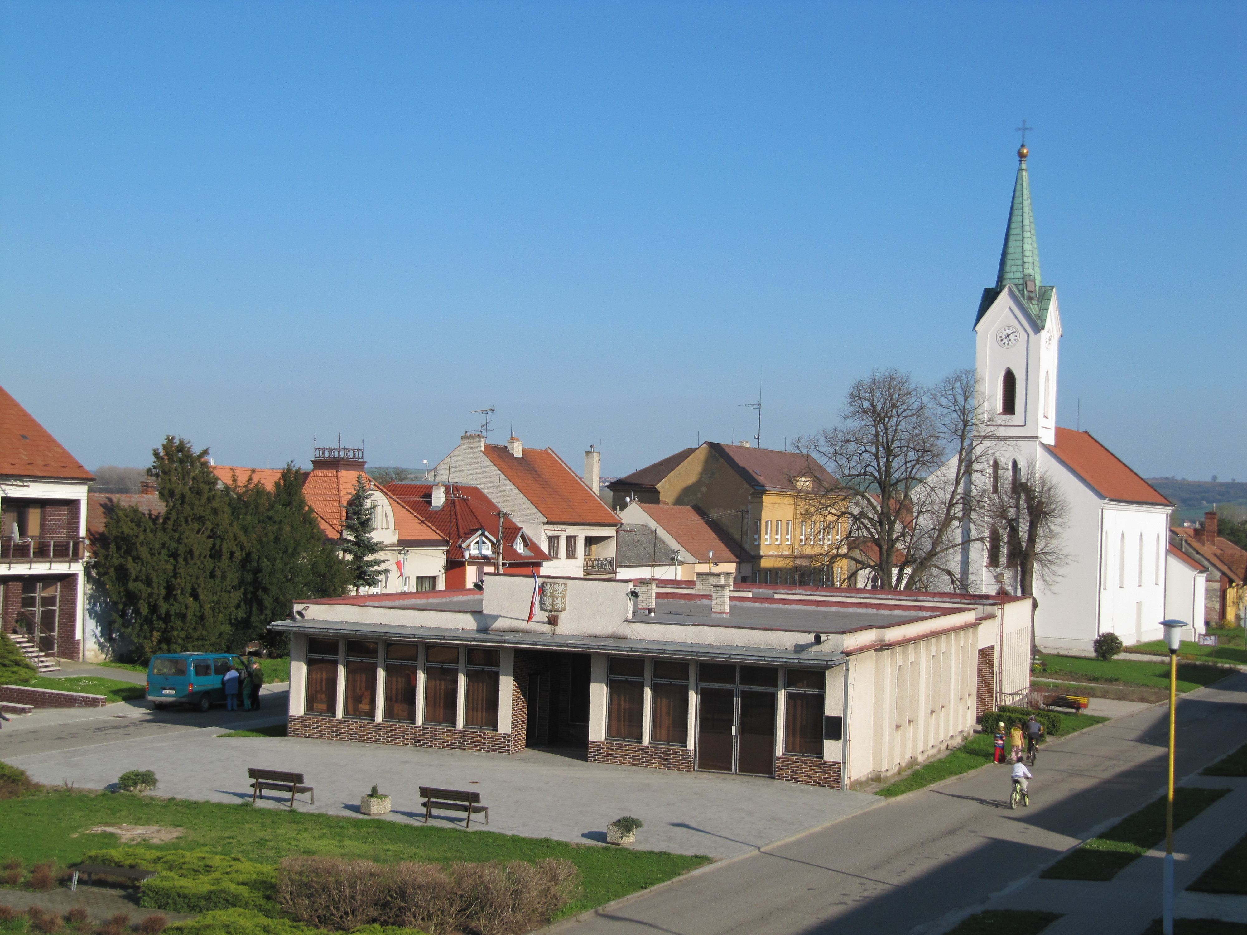 Huštěnovice